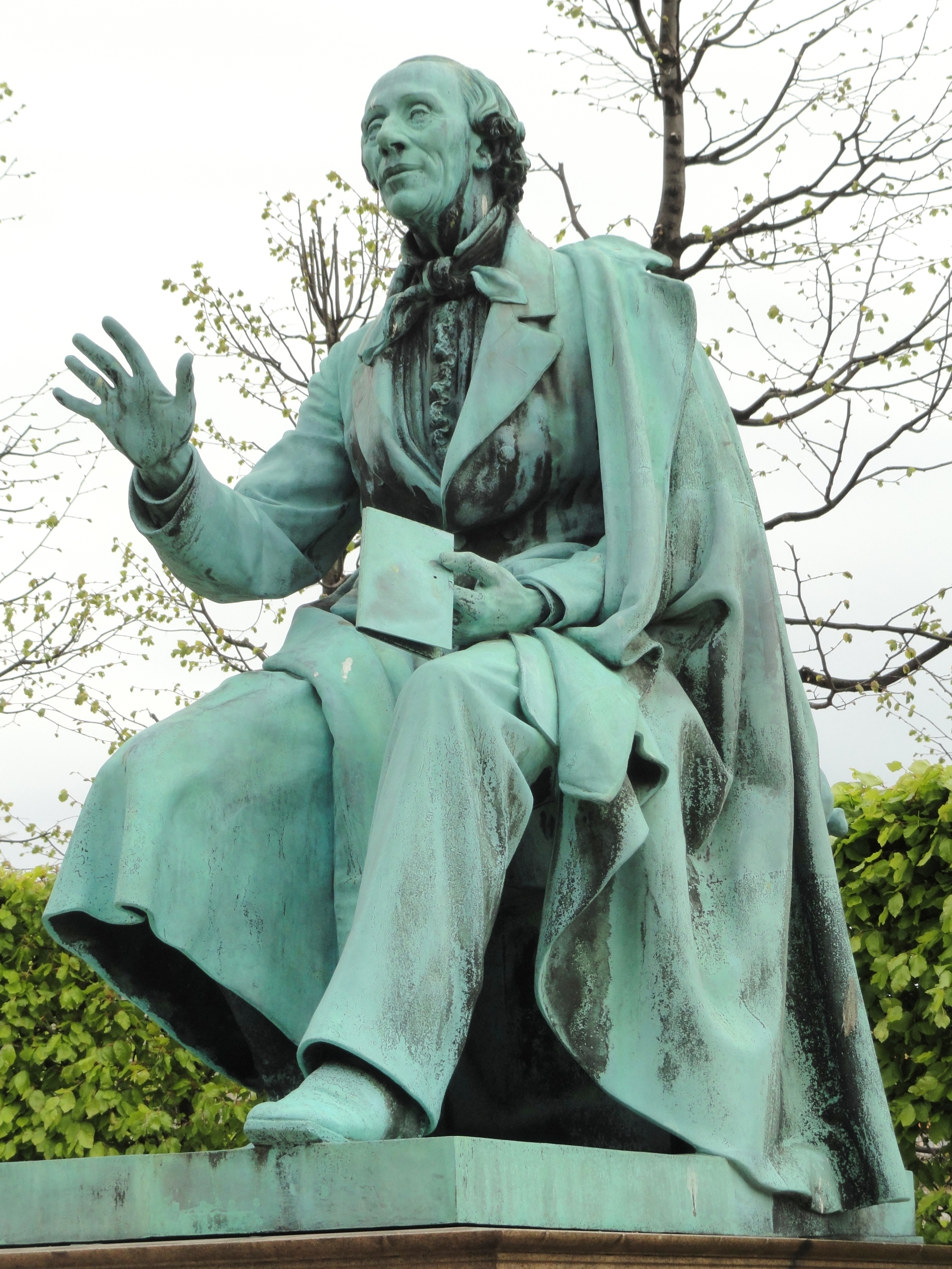 Hans Christian Andersen statue in Kongens Have, Copenhagen, Denmark. This statue is in the public domain because the sculptor has been dead more than 70 years.